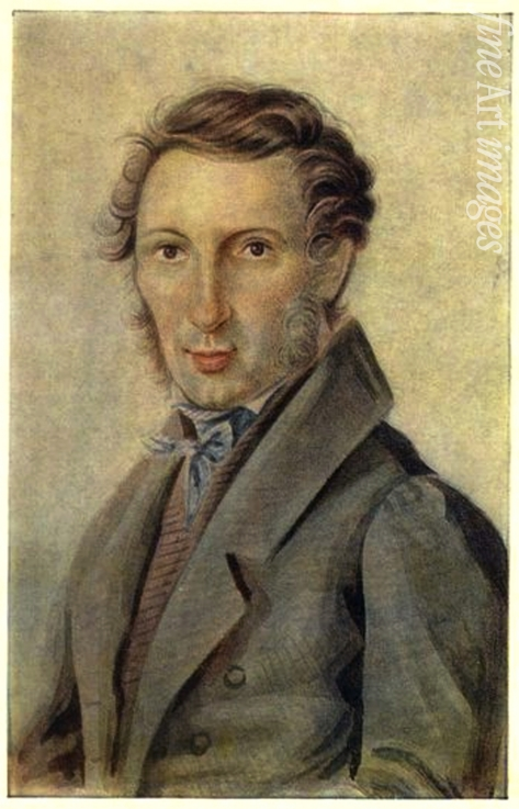 Portrait of Prince Sergei Petrovich Trubetskoy (1790-1860). Museum of Private Collections in A. Pushkin Museum of Fine Arts, Moscow